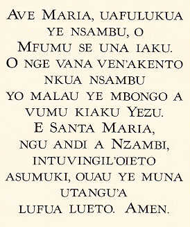 Prayer in Kikongo